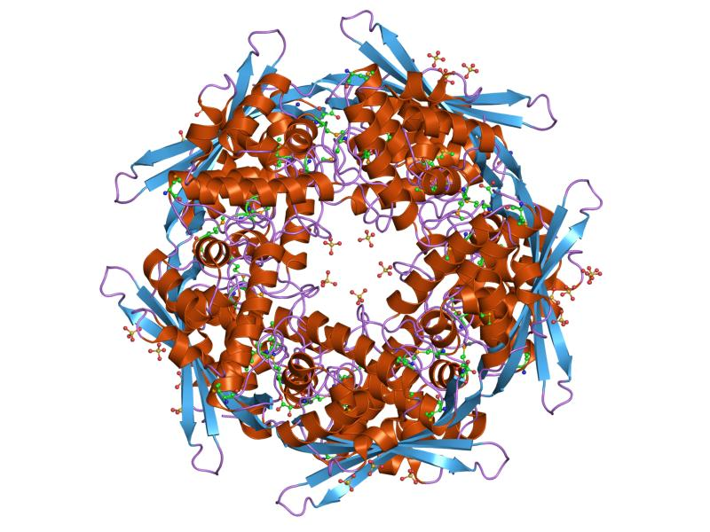 Cartoon representation of the molecular structure of protein registered with 1dwk code.